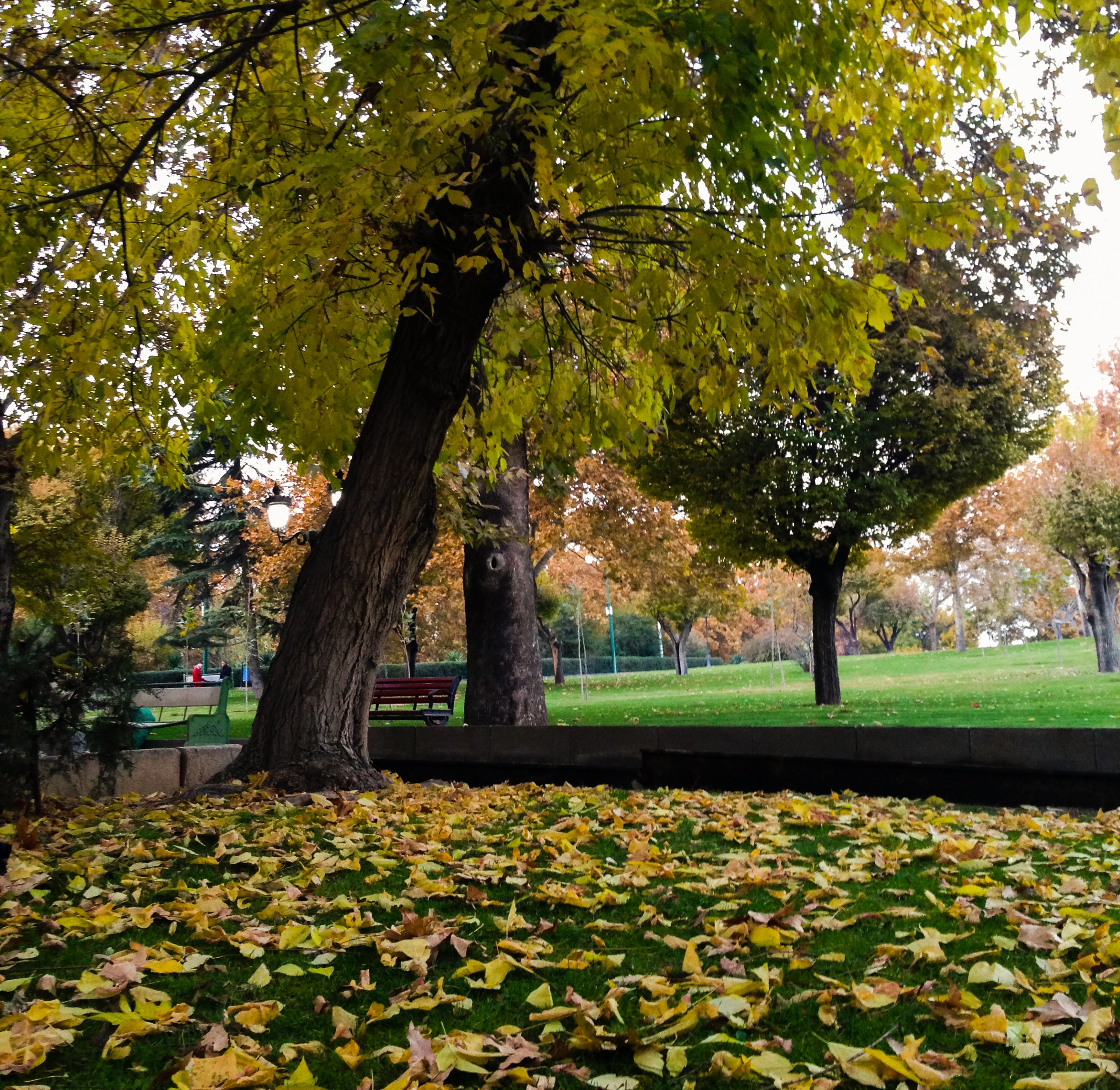 A fall in Nation Park, Tehran City